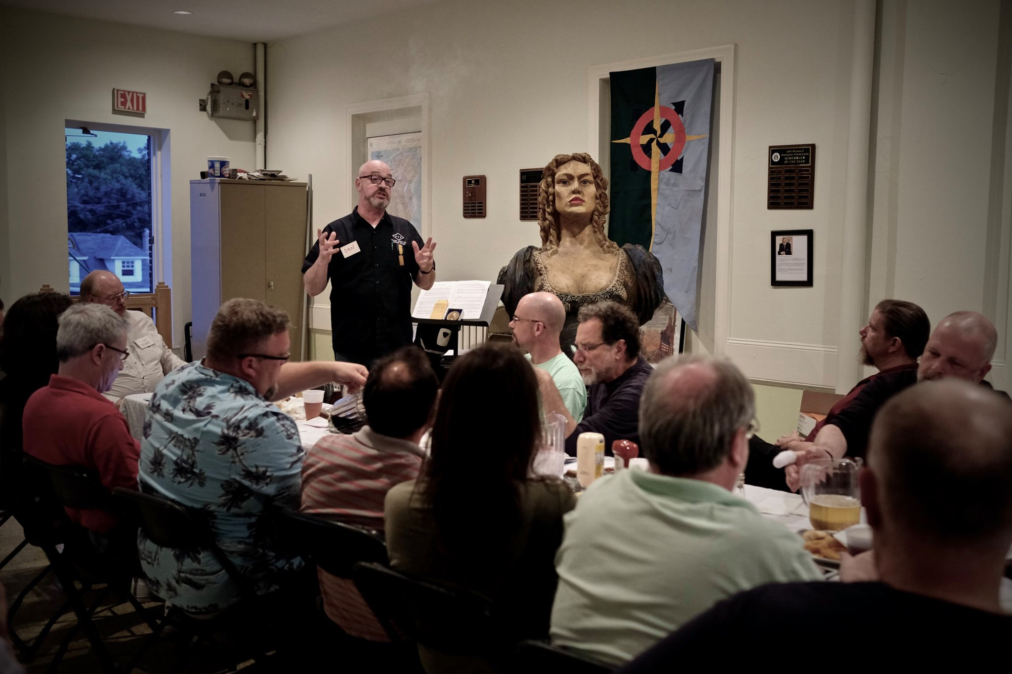 A member of the RR&R makes a presentation to his Lair.